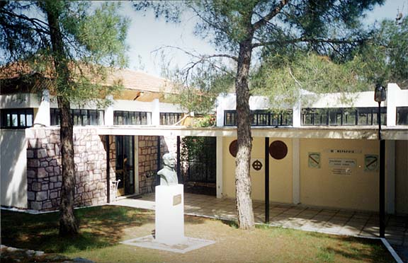 Outside view, image from the War Museum, Kilkis, Central Macedonia, Greece